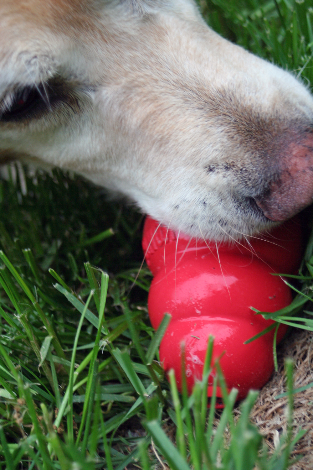 The quintessential King of Kong. 4may08